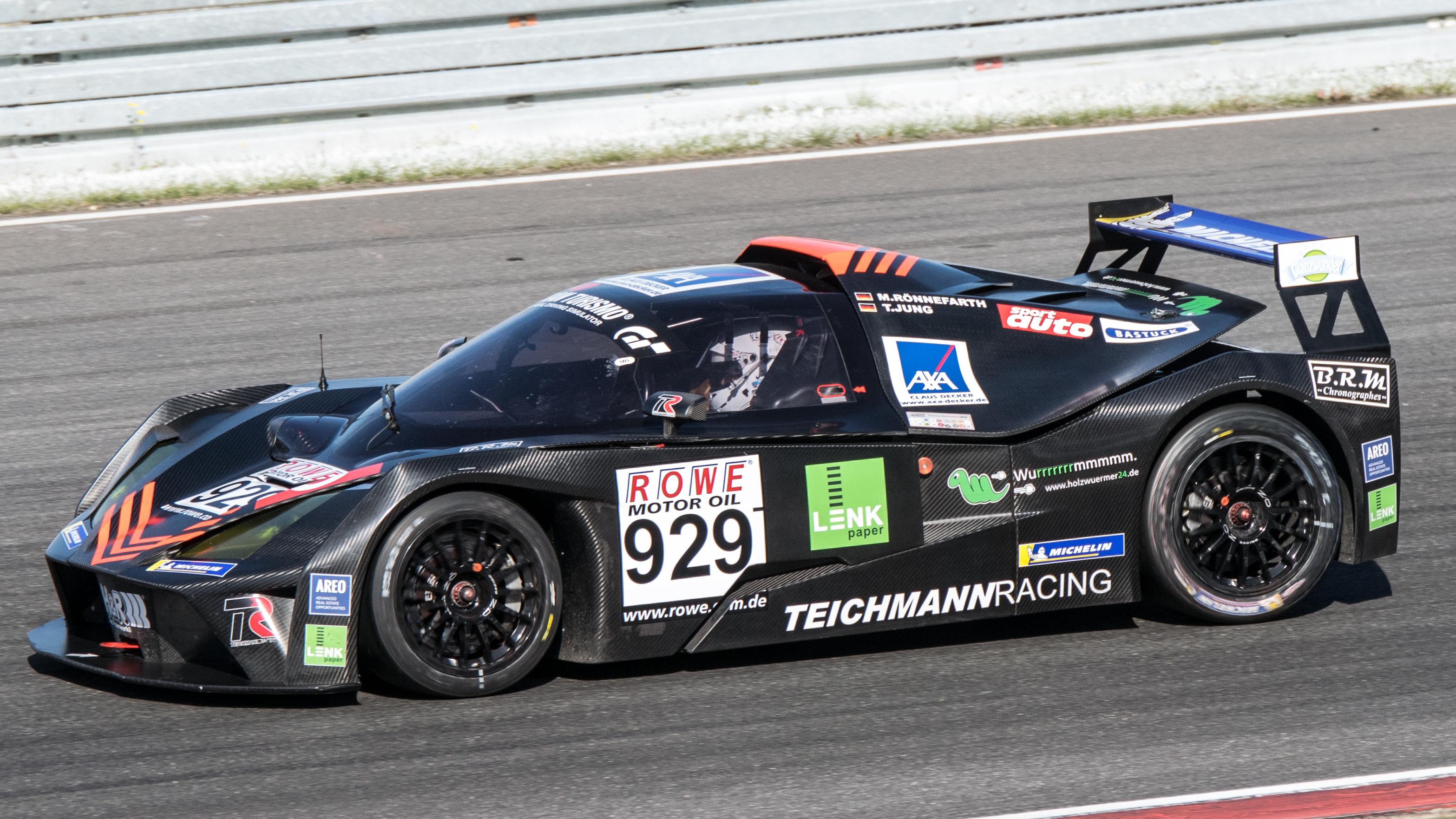 KTM X-Bow GT4) at VLN Barbarossapreis at the Nürburgring